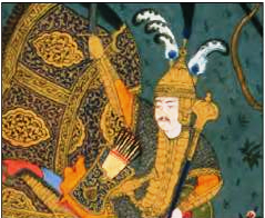 Painting of Nastihan in The Shahnama of Shah Tahmasp